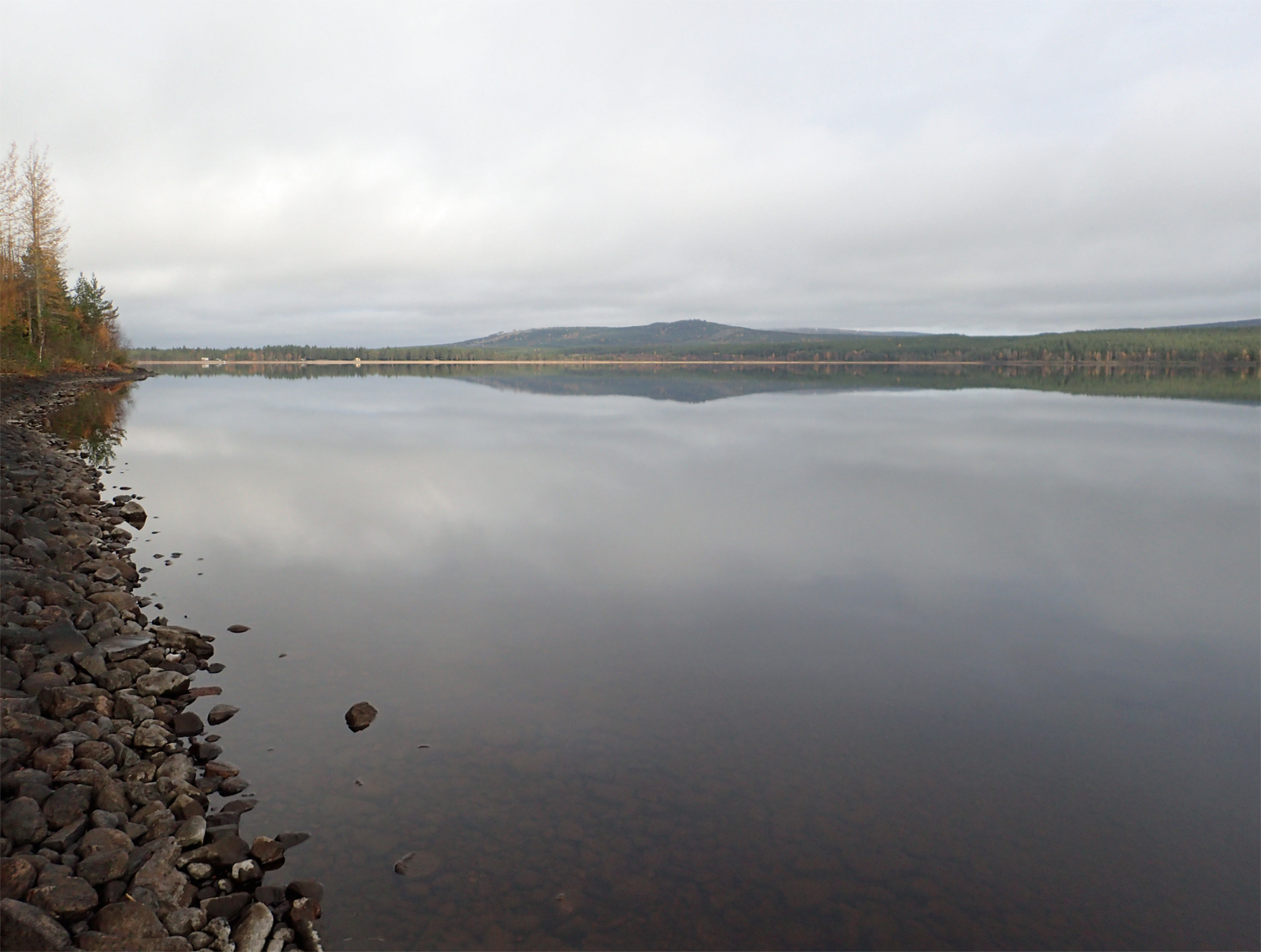 Lake Lögdasjön in Lögdeälven close to the village Lögda.